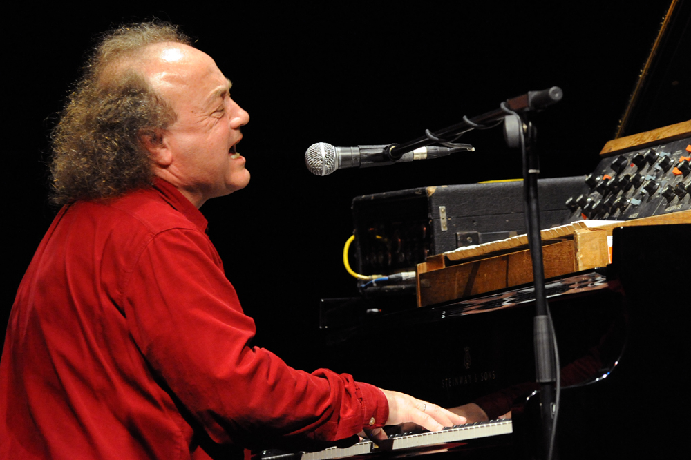 Jozef Skrzek - Polish vocalist and musician - performing during a benefit concert in Warszawa, Poland in November 2010.